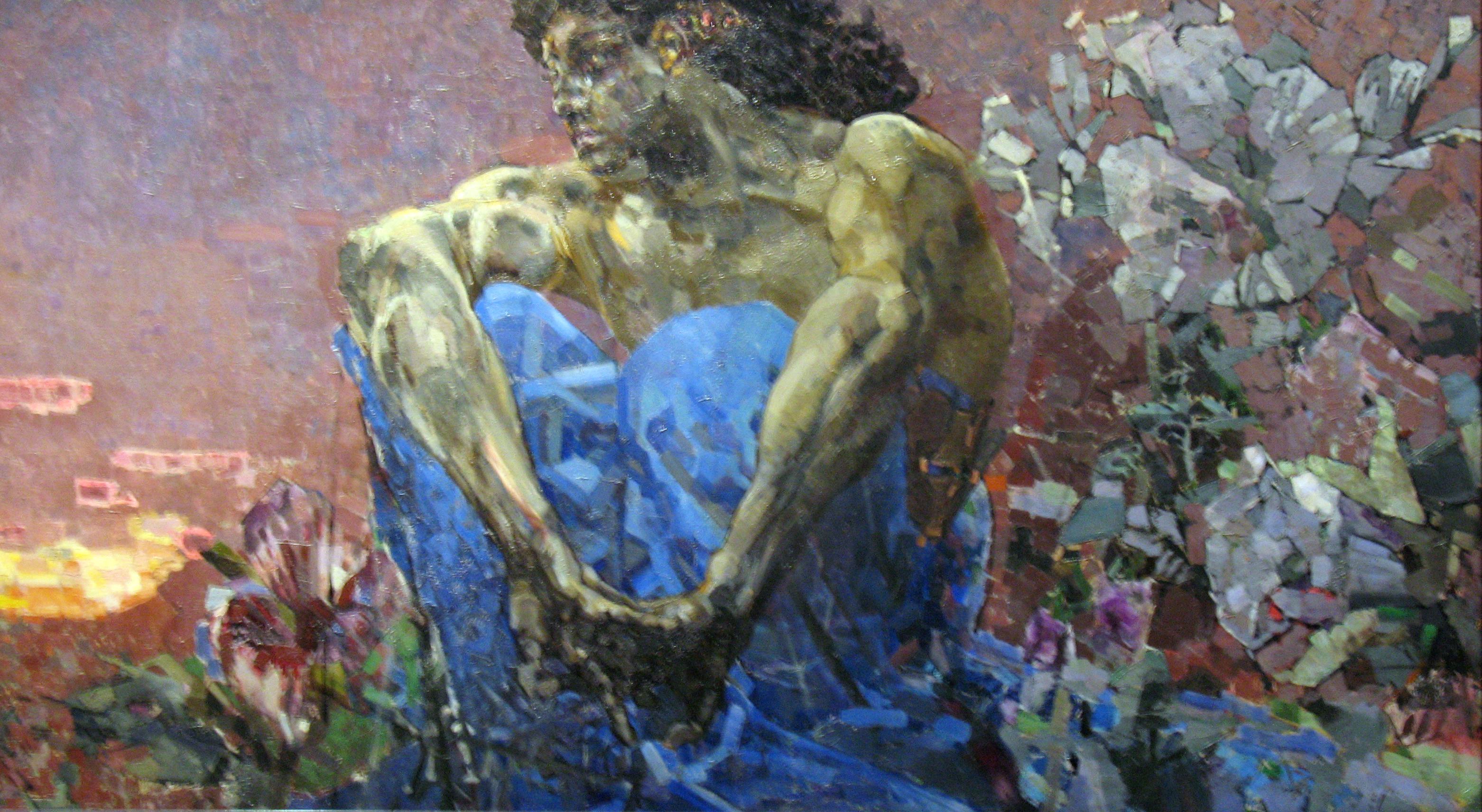 demon (seated)